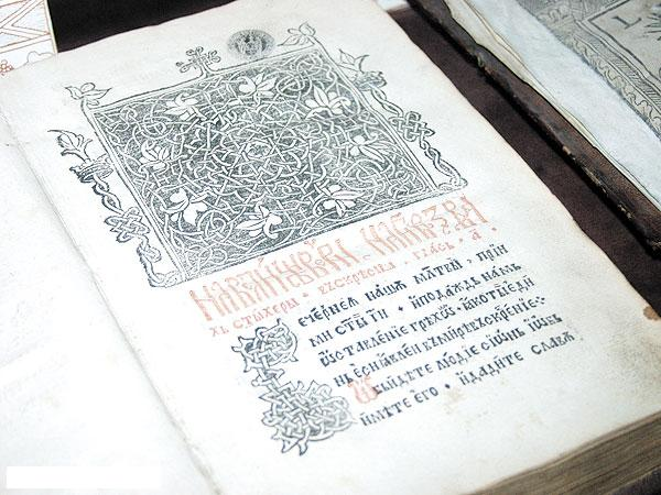 Sala Cartea factor de unitate nationala Prima Scoala Romaneasca Brasov